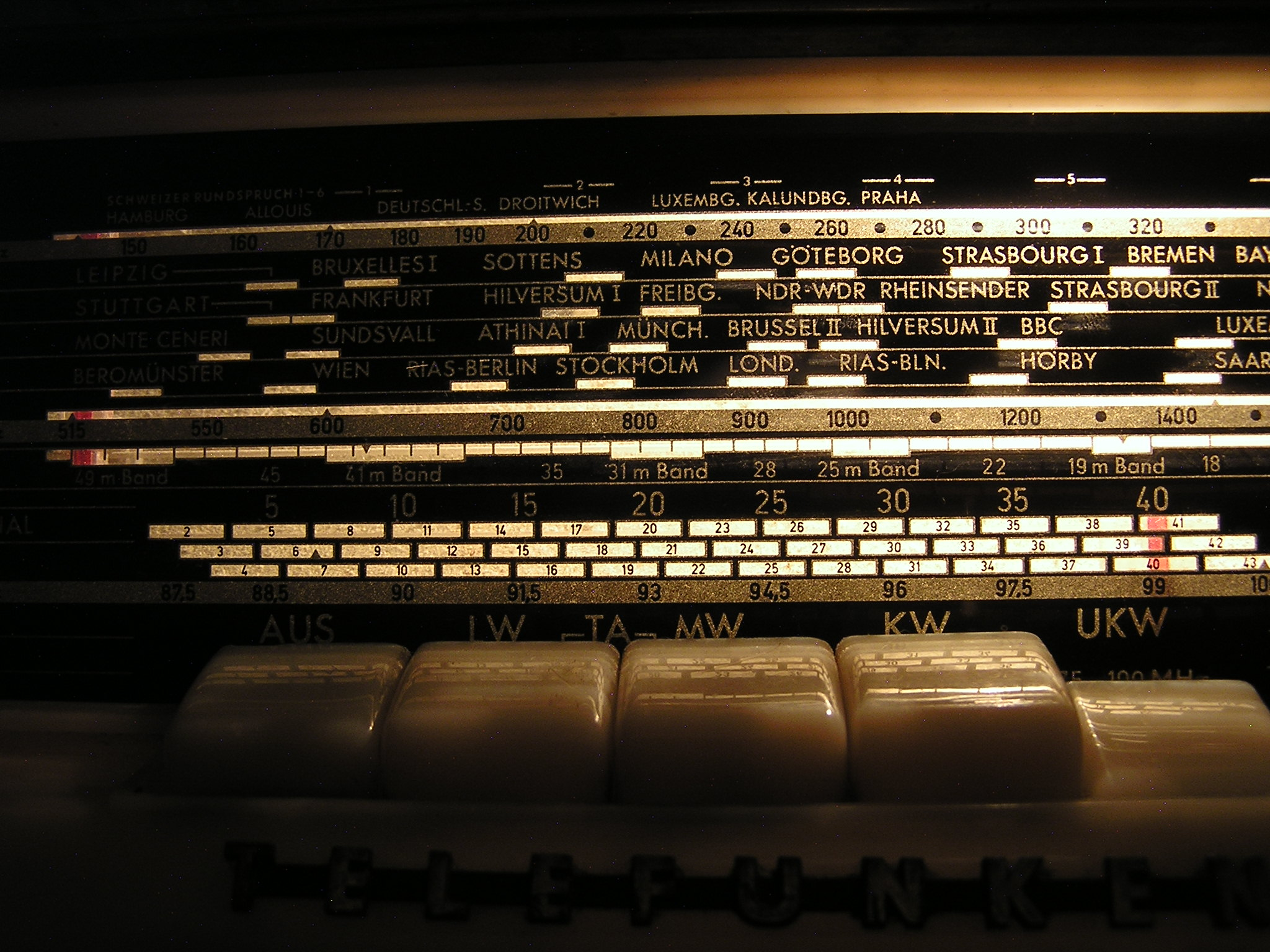 Front panel of the device. Far left button turns it off, the rest select different ranges. Notice the two-part panel (top-bottom) for the different frequencies. Each panel is independent and has its own control dial.